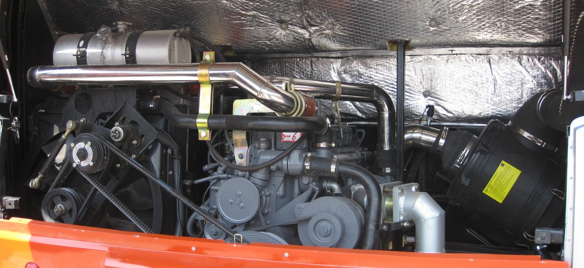 Deutz(-Dalian) diesel engine model BF6M1013-26E3 equipped for Dalian Public Transport bus model CA6123SH2, manufactured by FAW Dalian Coach Factory